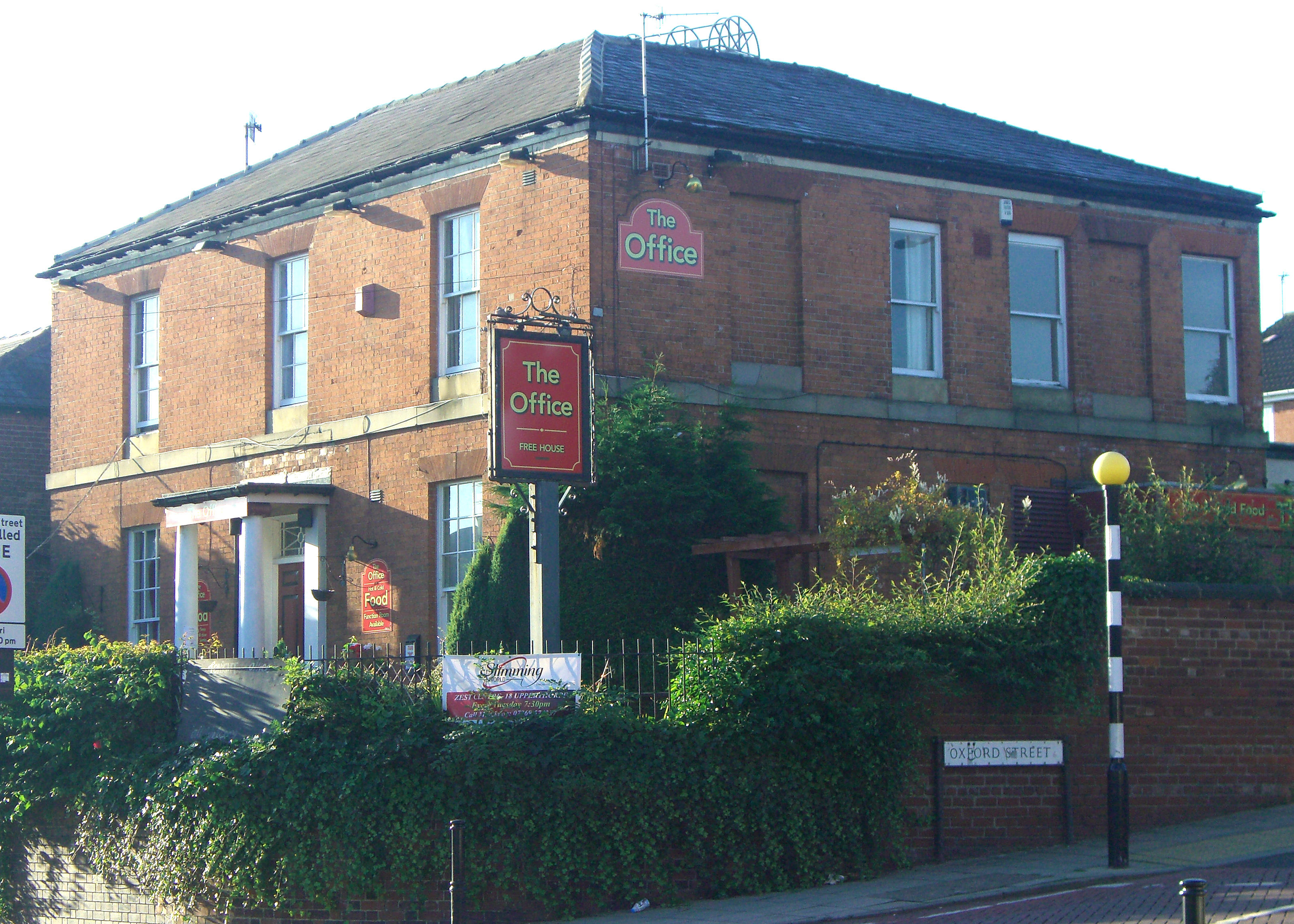 Eversley House, a grade II listed building in Upperthorpe, Sheffield, dating from 1840 it is now The Office public house.